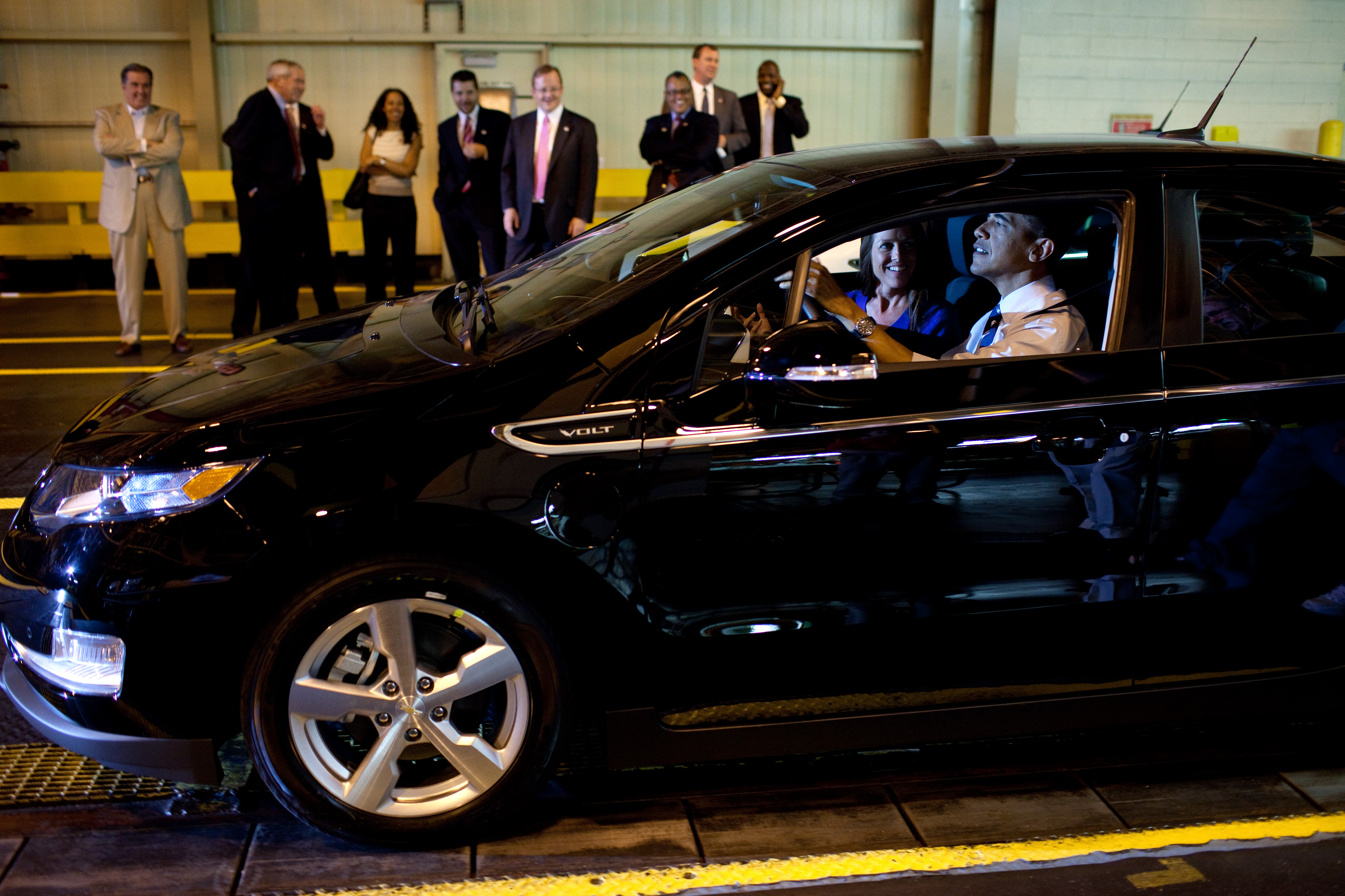 President Barack Obama, with Assembly Manager Teri Quigley, drives a new Chevy Volt, during his tour of the General Motors Auto Plant in Hamtramck, Mich., July 30, 2010. (Official White House Photo by Pete Souza)